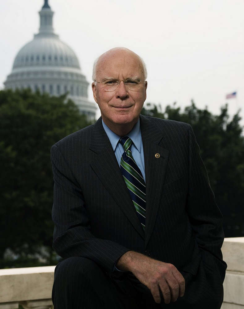 Official photo of Senator Patrick Leahy (D-VT)